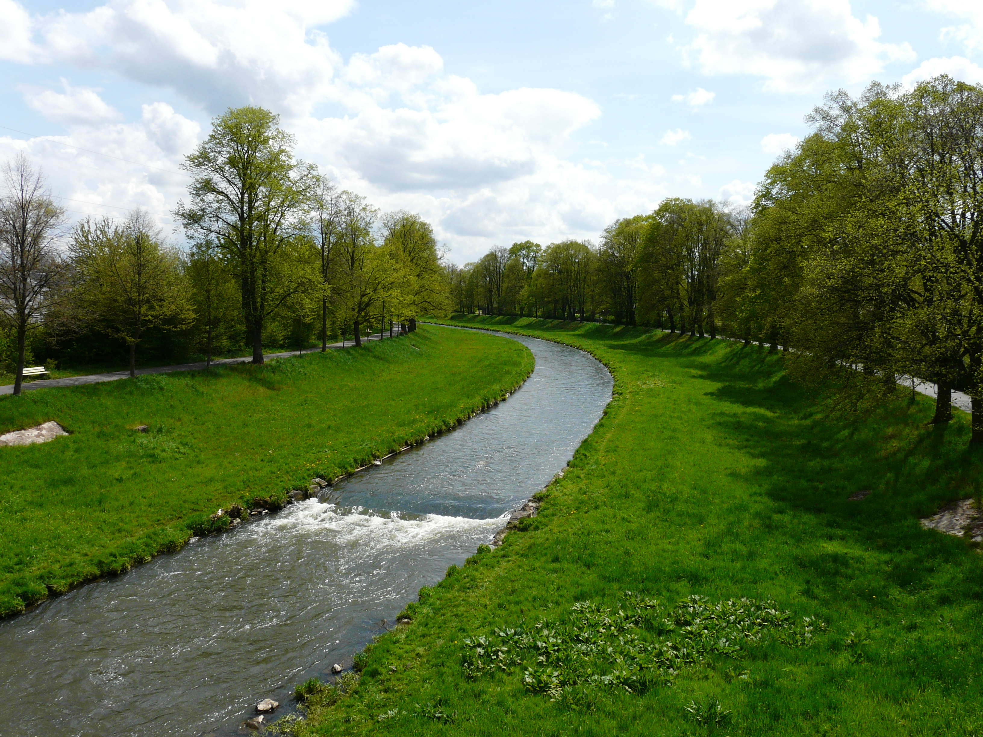 The river Roter Main (Red Main) within the urban area of Bayreuth.